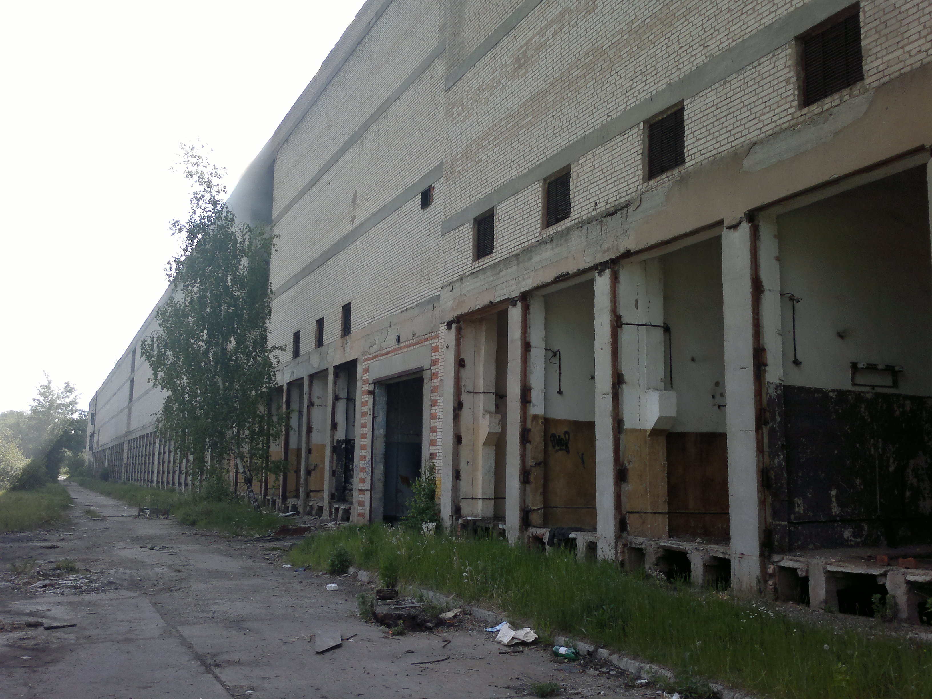 Dunai-3M radar (DOG HOUSE) in Kubinka, Russia